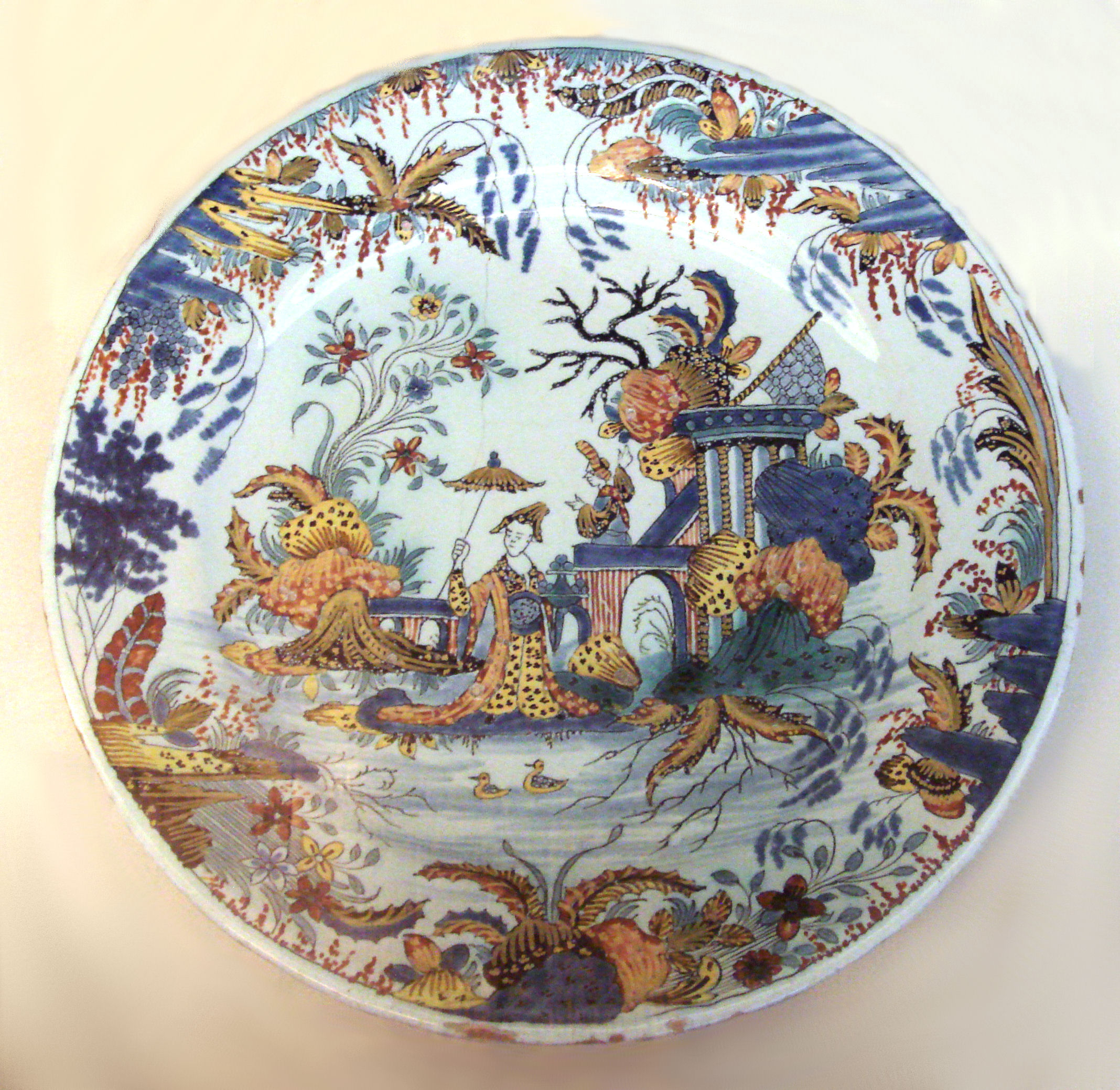 Sinceny faience plate 1740 1760 25 × 25 cm (9.8 × 9.8 in), Inventory number 23299